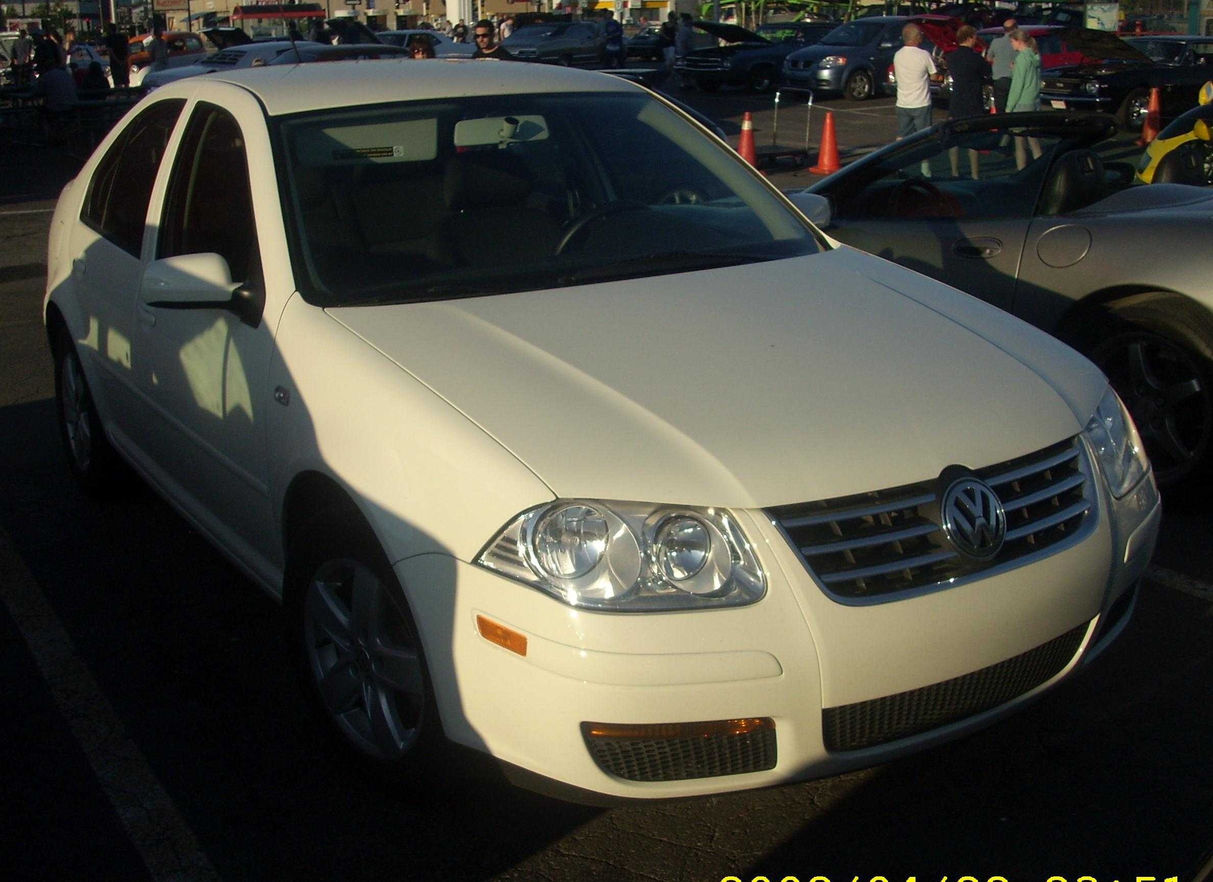 2008 Volkswagen City Jetta photographed in Montreal, Quebec, Canada at Gibeau Orange Julep.